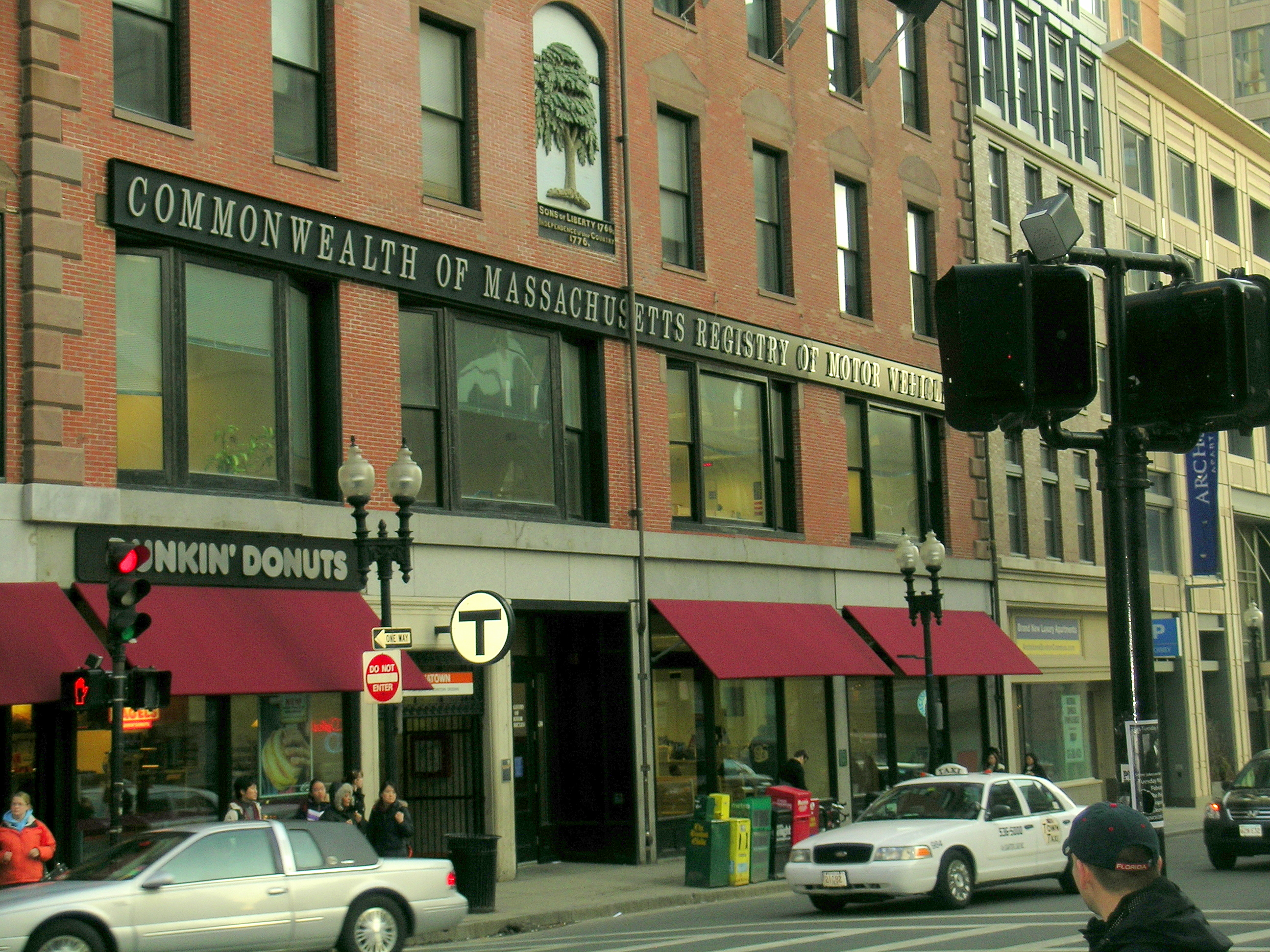 The downtown office of Massachusetts Registry of Motor Vehicles in Chinatown, Boston in 2008. The office was later closed and relocated to Haymarket Square.